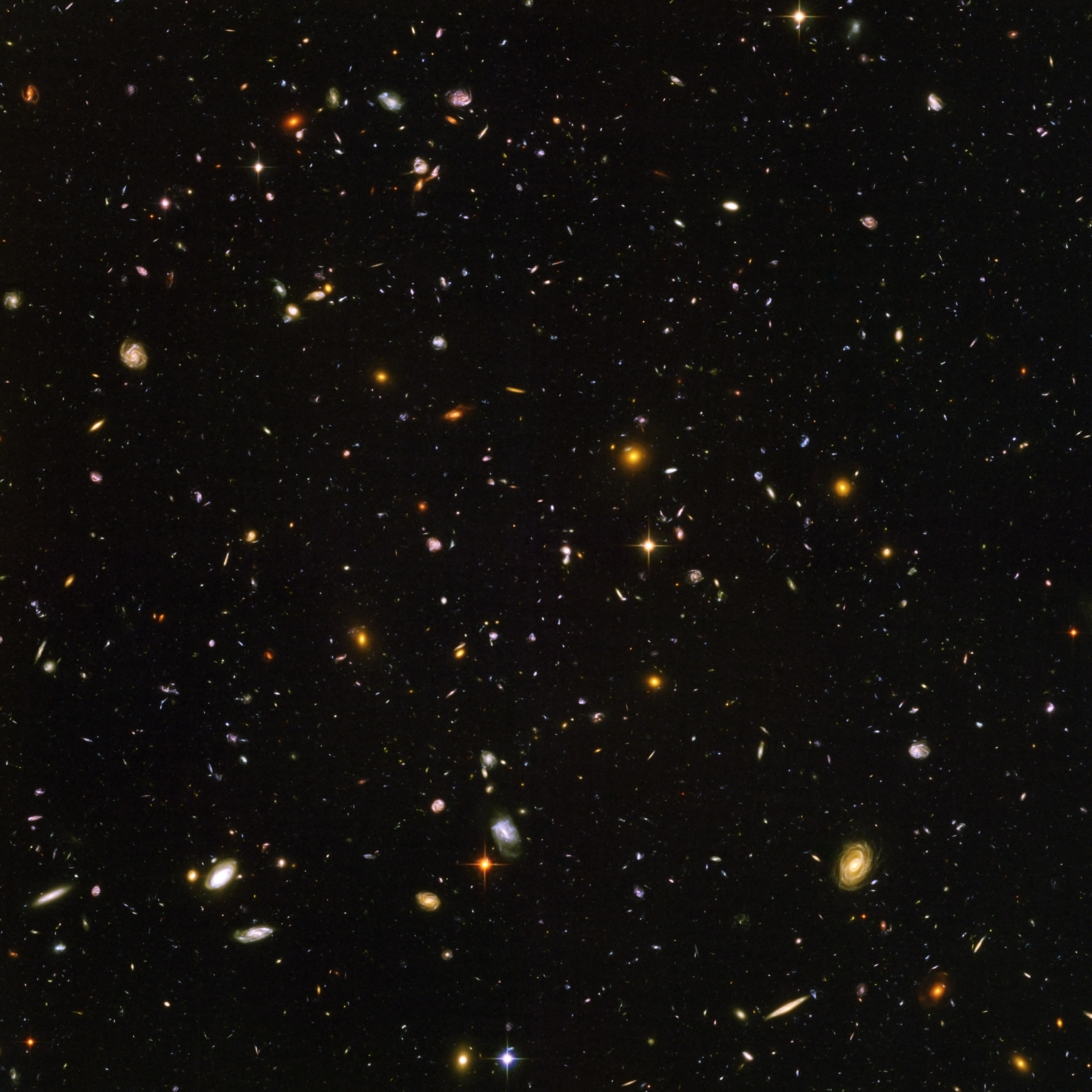 HUDF (Hubble Ultra Deep Field) after fine noise reduction & histogram optimization. Minimal data loss for visual clarity.